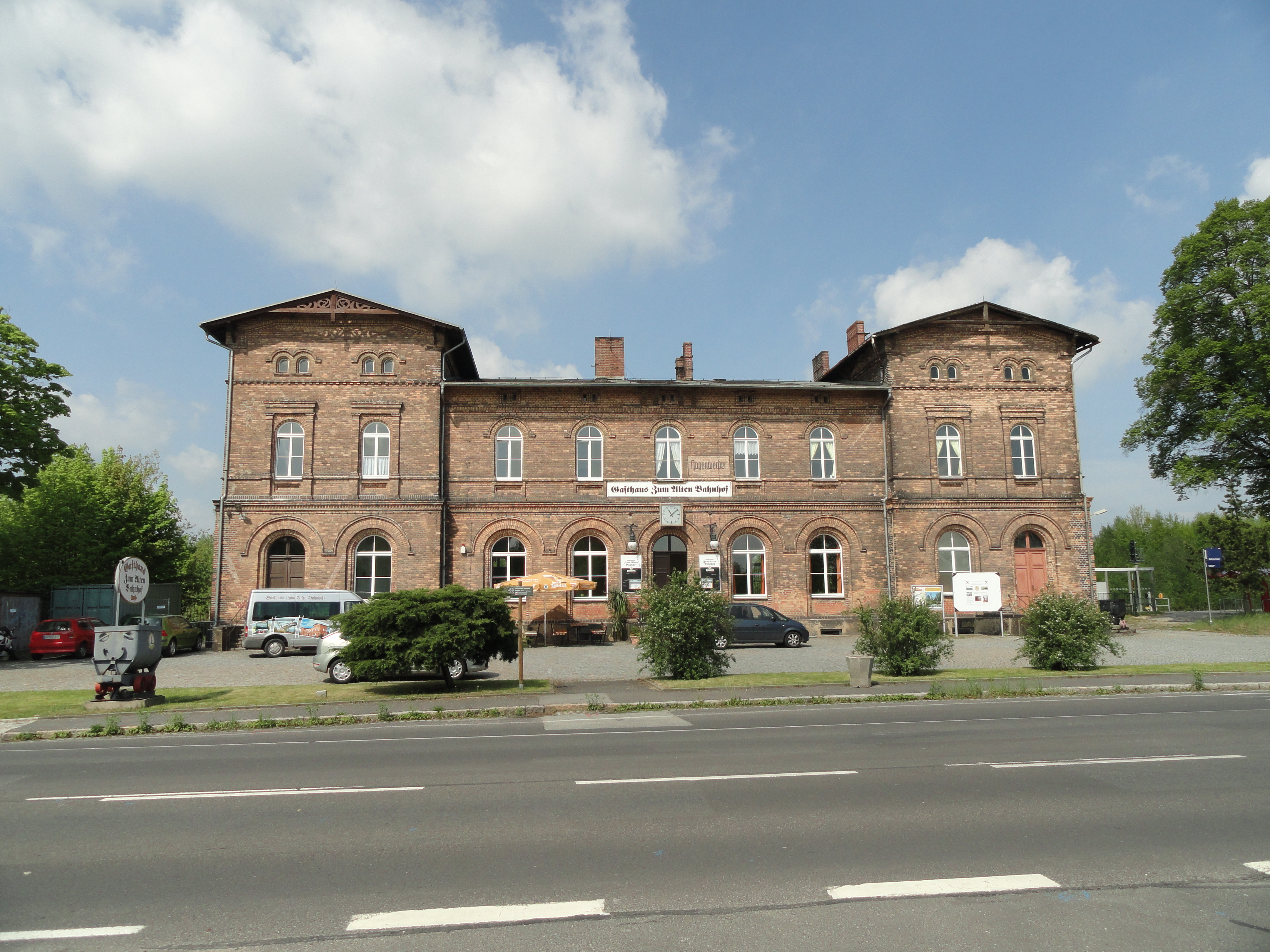 train station Hagenwerder, in the south of Görlitz, Saxony